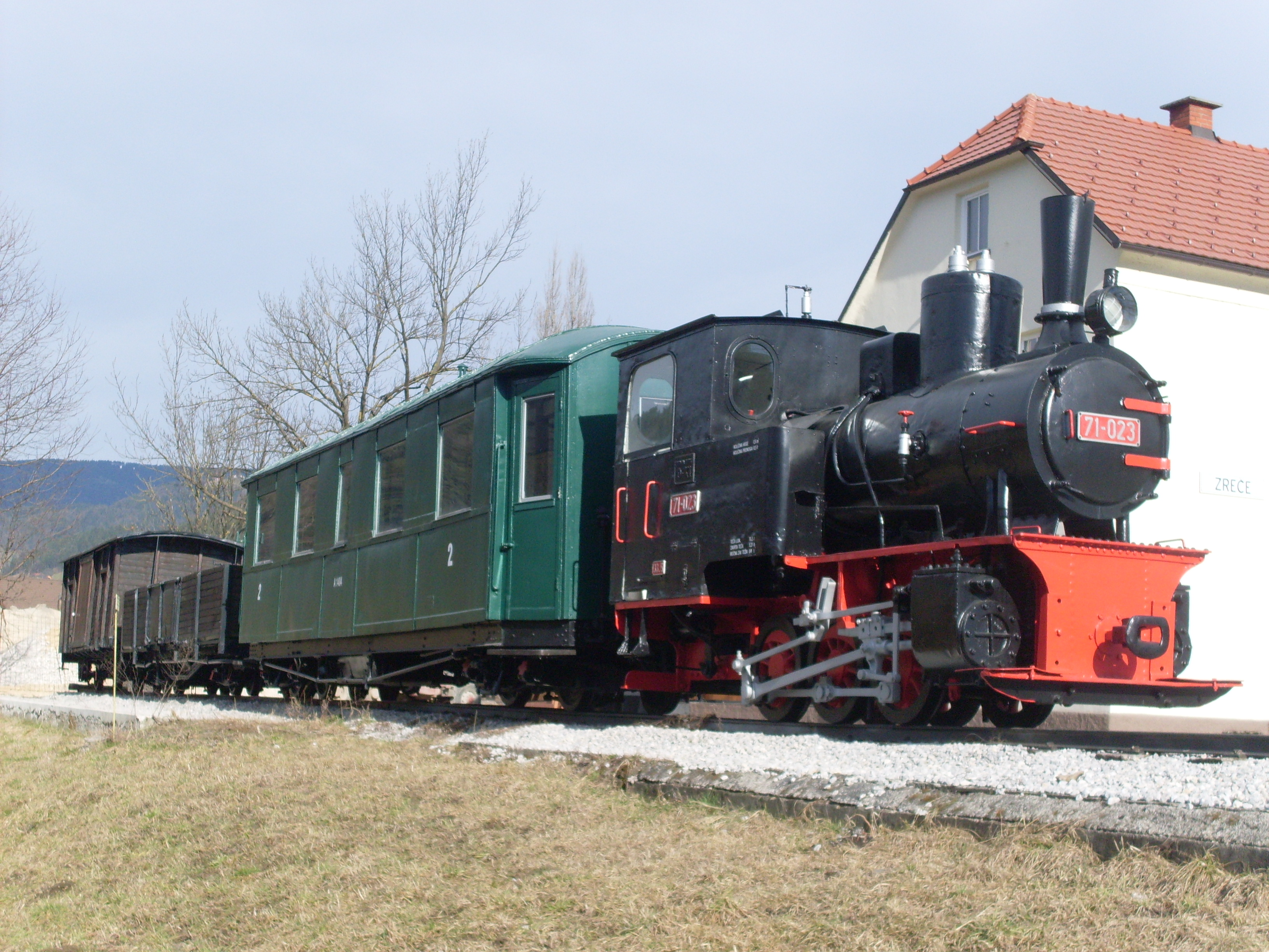 Zreče, Slovenia - a train in front of the former train station to remind of the former narrow gauge railway Poljčane - Slovenske Konjice - Zreče (1892 - 1962). The steam locomotive worked as O-XI at the ironworks in Jesenice and was never used at this rail line. It was assigned the number 71-023 after its "retirement". More photos: 1 and 2.